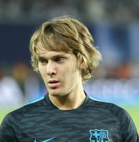 Alen Halilovic warming up for FC Barcelona in 2015.